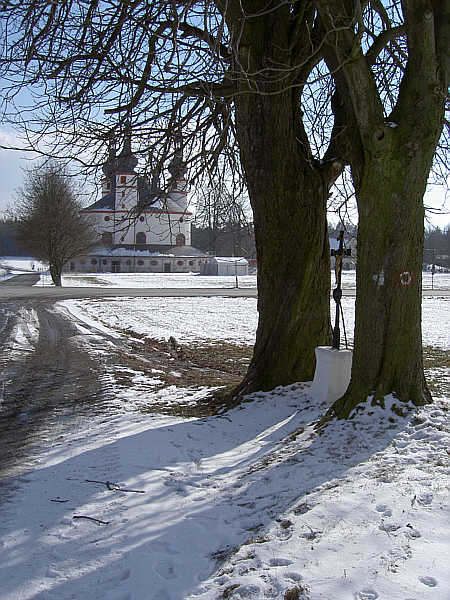 The 'Kappl' belongs to the community Münchenreuth Fotograf: Walter J. Pilsak 2002 Copyright Status: GNU Freie Dokumentationslizenz